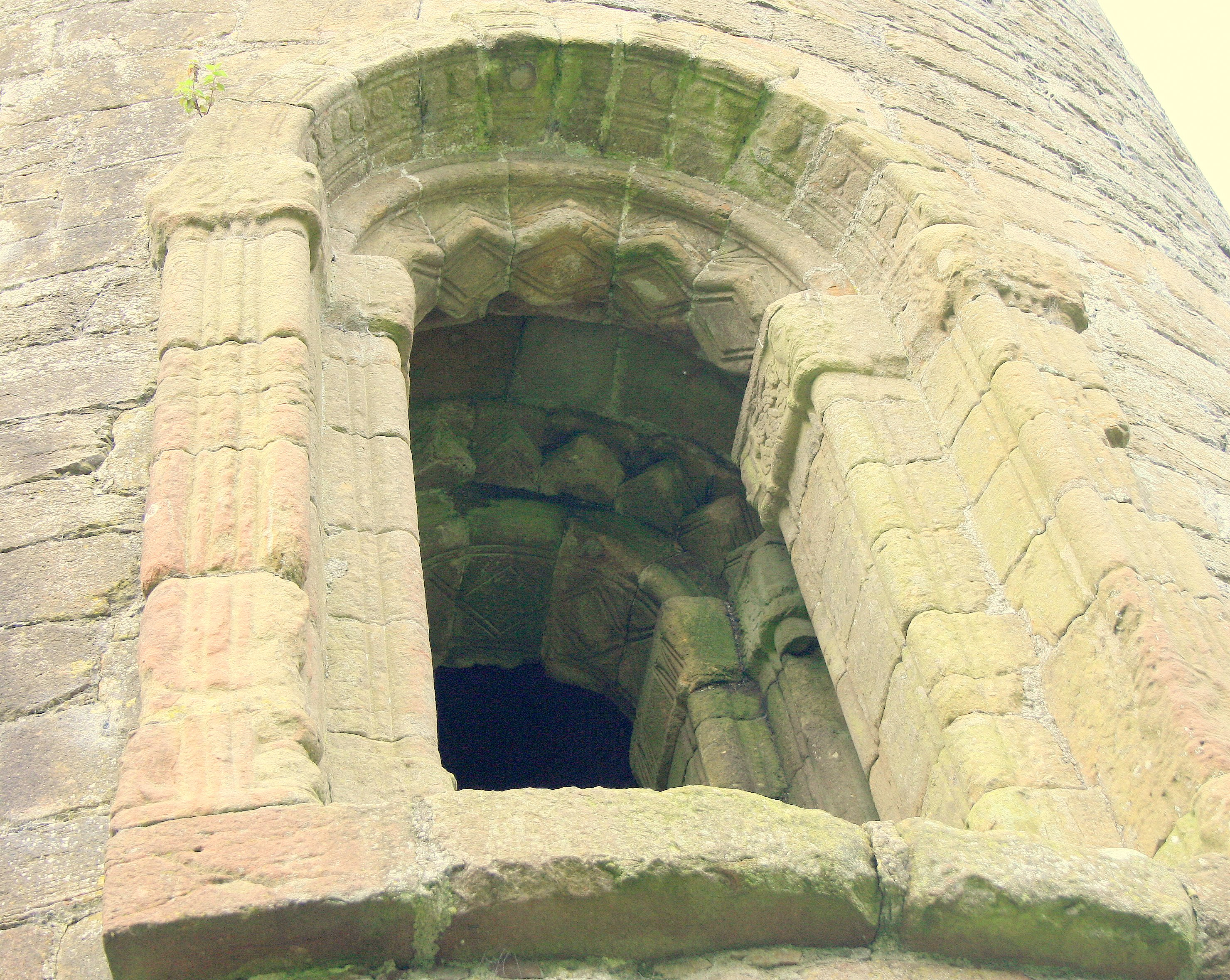 The Romanesque door in the 12th century Round Tower, Timahoe, Ireland. Note the two external and two internal orders of decoration.